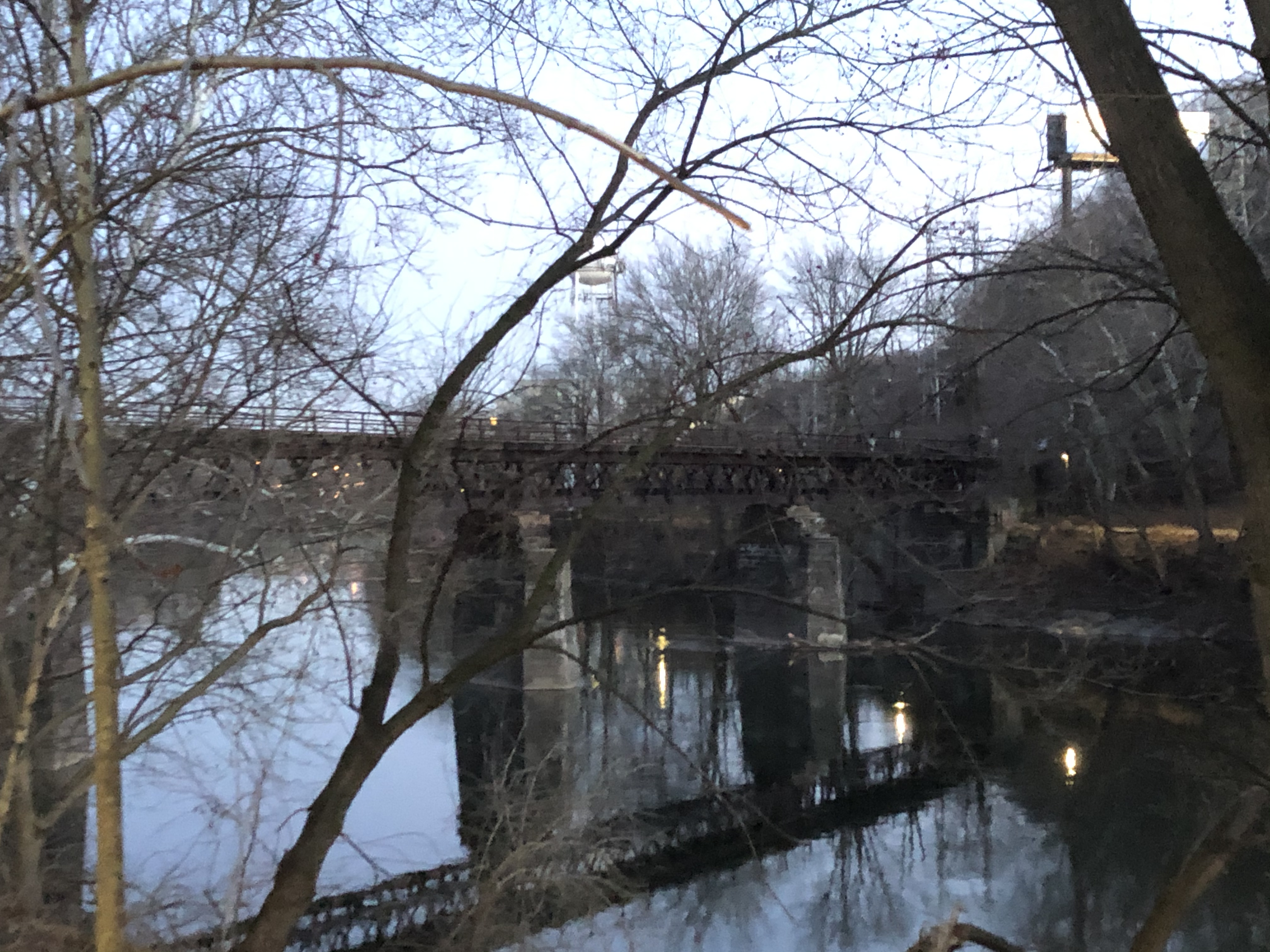 Mule Bridge